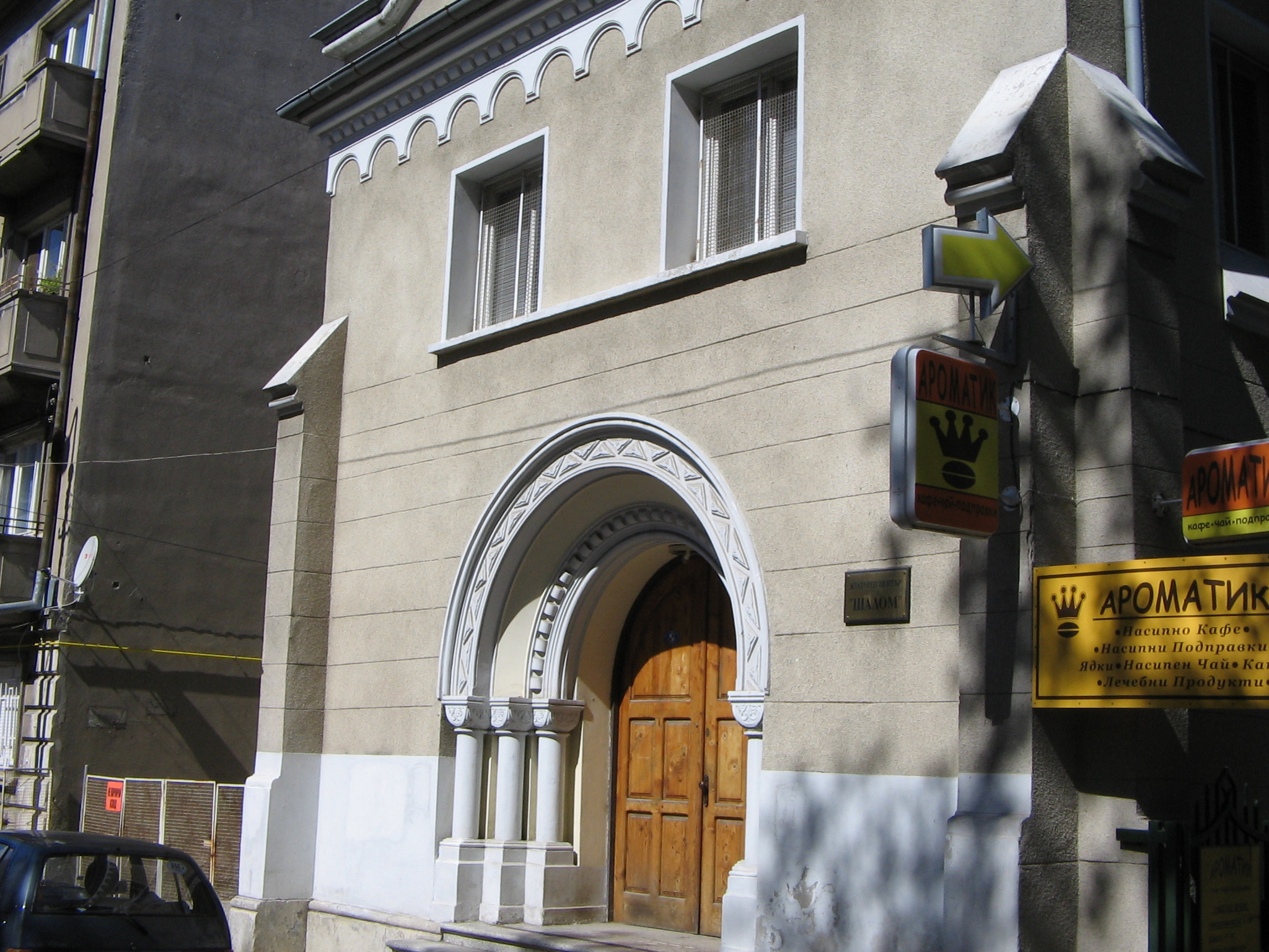 The synagogue in Rousse, Bulgaria